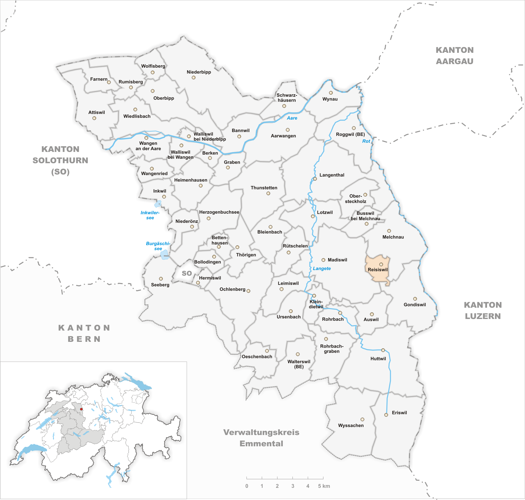 Municipality Reisiswil